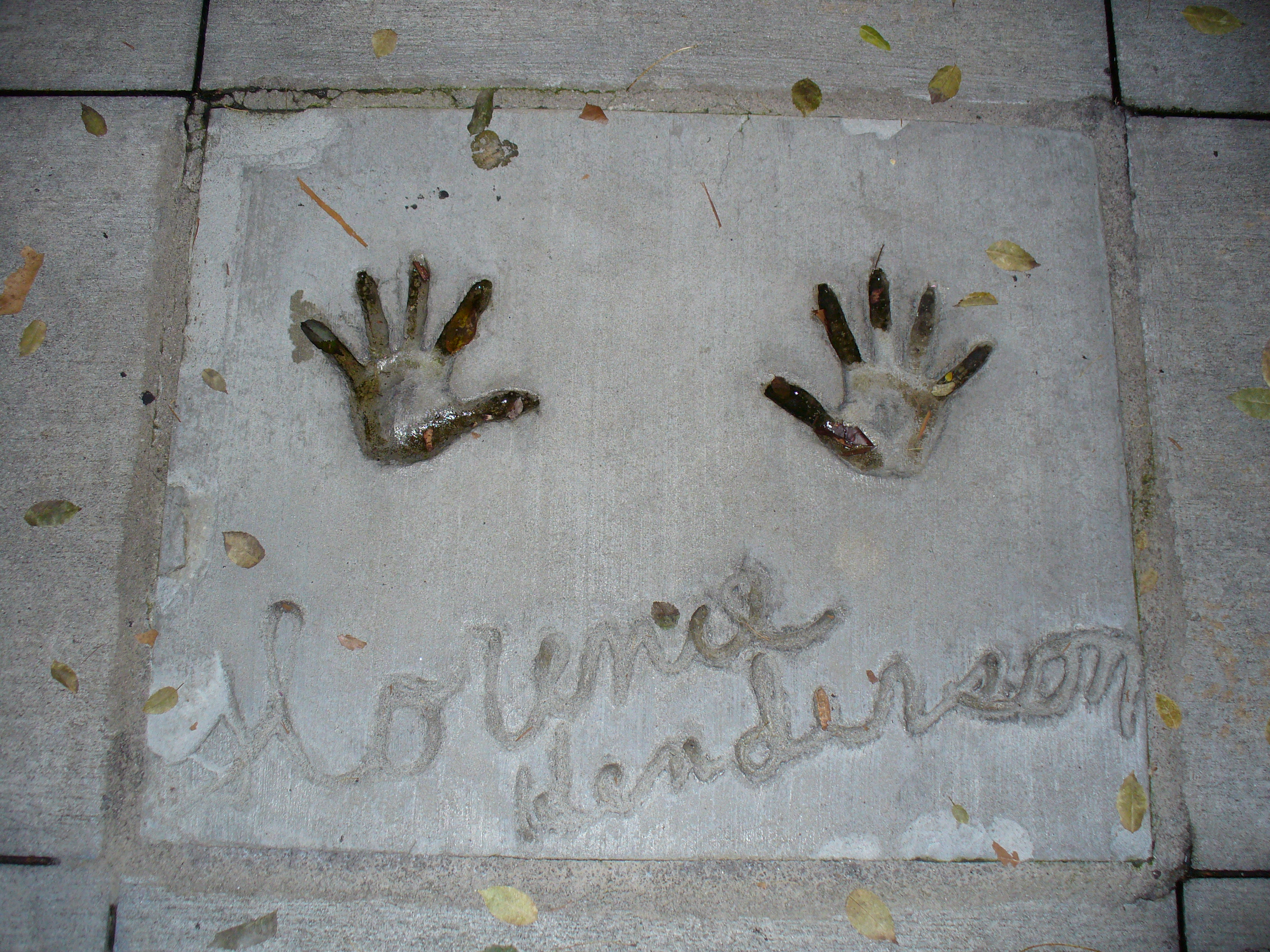 I am the originator of this photo. I hold the copyright. I release it to the public domain. This photo depicts the handprints of Florence Henderson in front of Hollywood Hills Amphitheater at Walt Disney World's Disney's Hollywood Studios theme park.